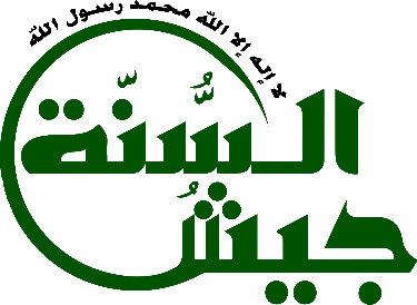 The logo of Jaysh al-Sunna.